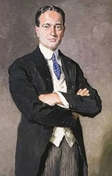 William Kissam Vanderbilt II (1878–1944)